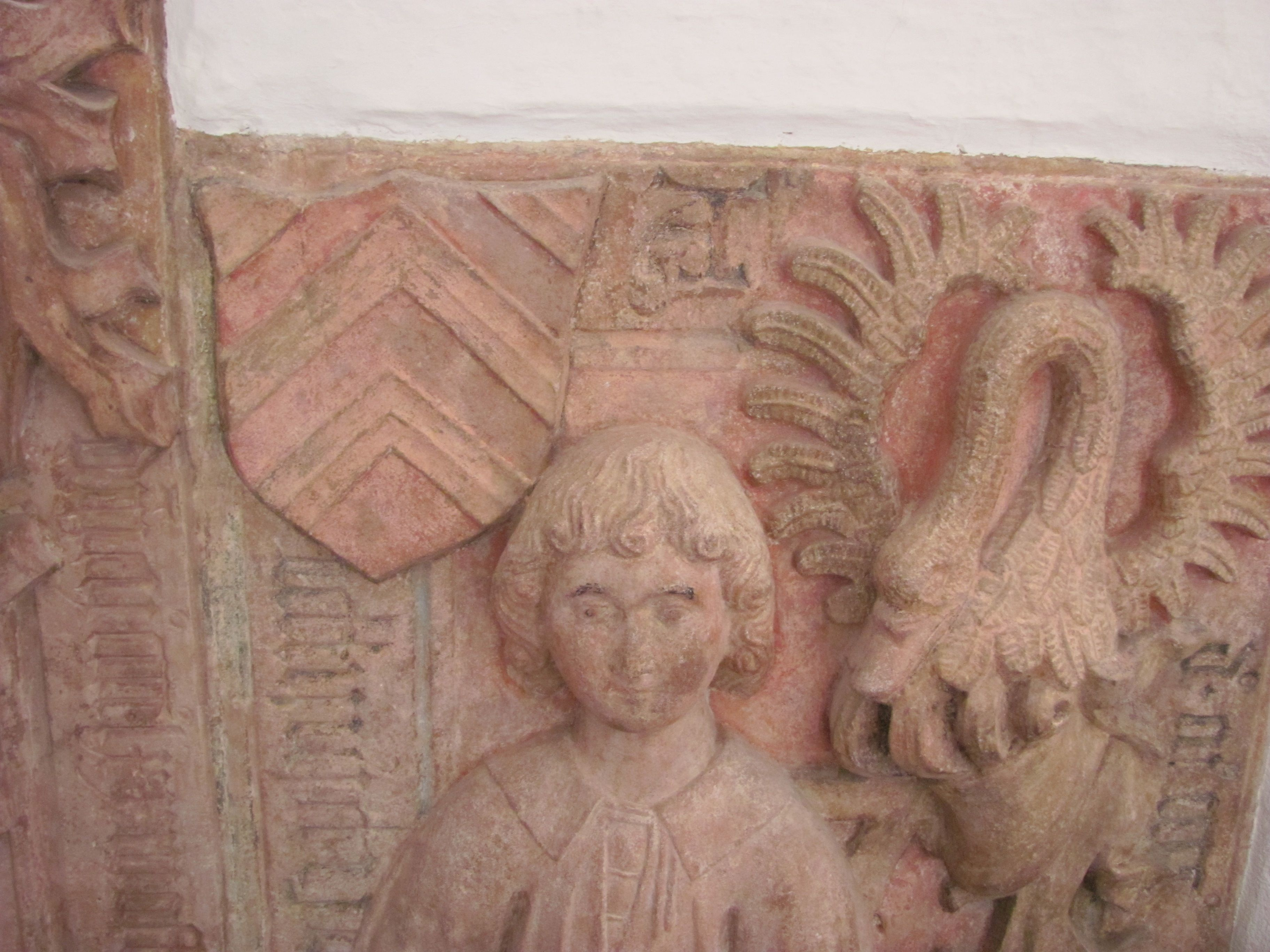 Count Dieter of Hanau-Lichtenberg (1468-1473)